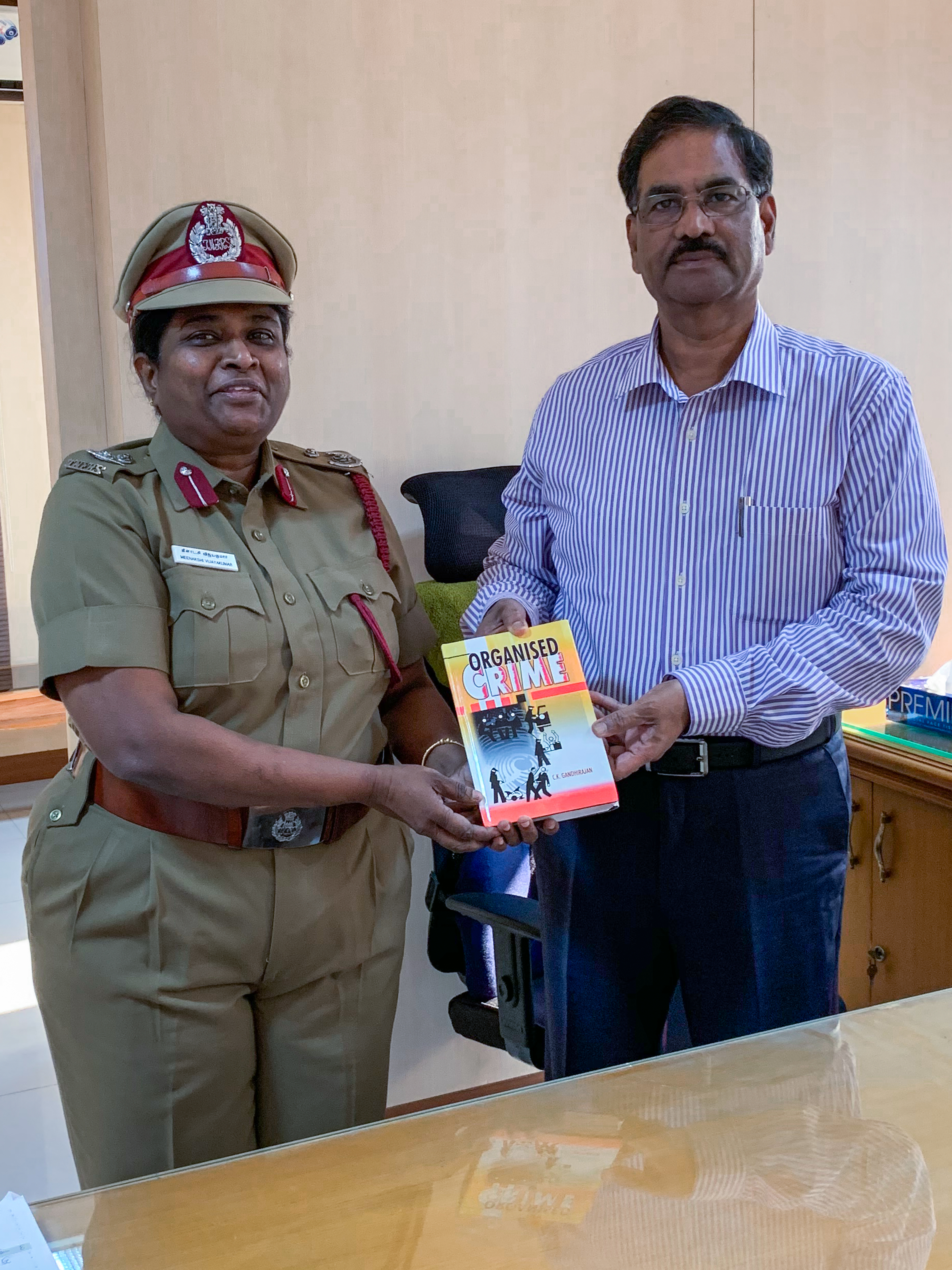 With DGP C.K.Gandhirajan